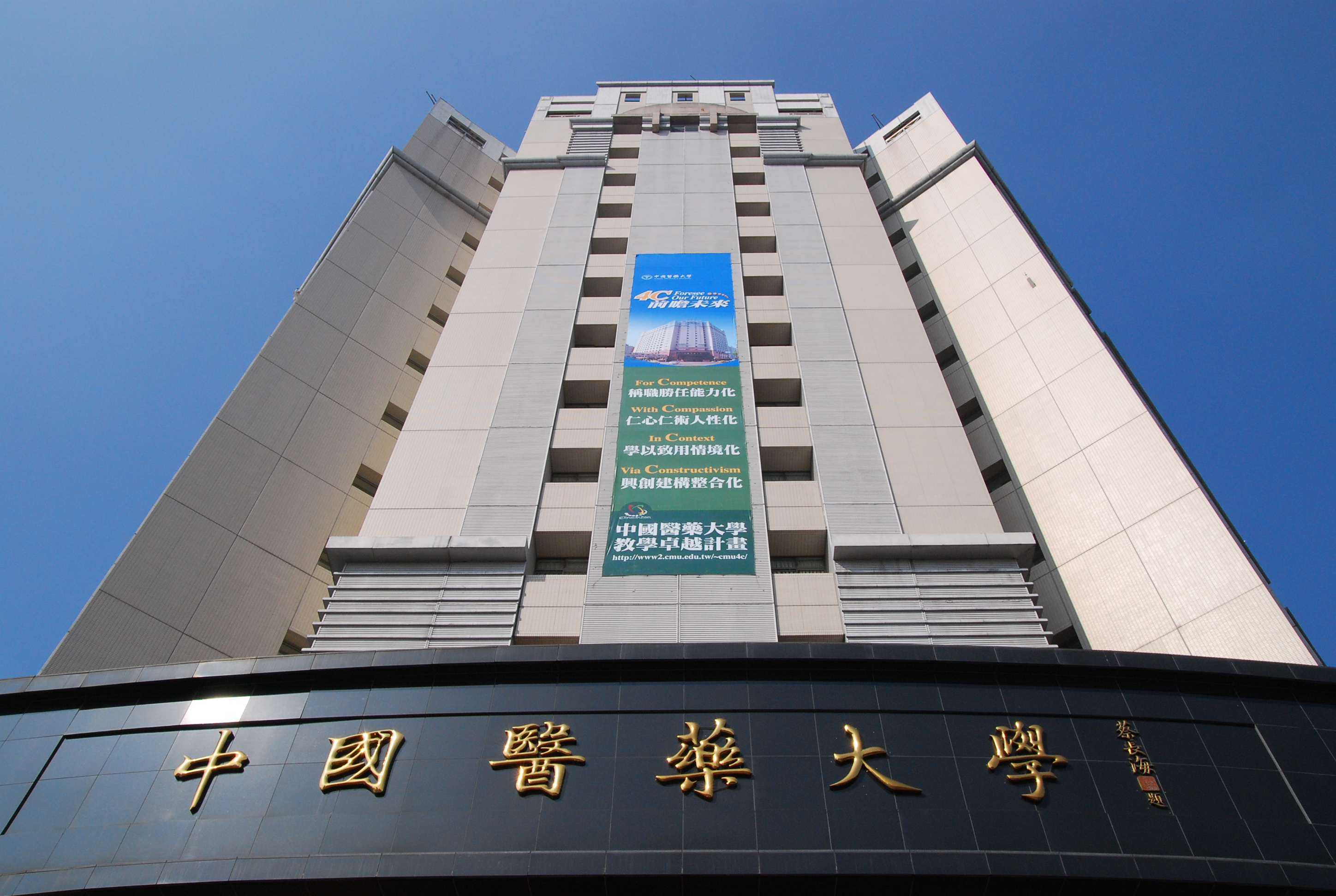 China Medical University, Taiwan.